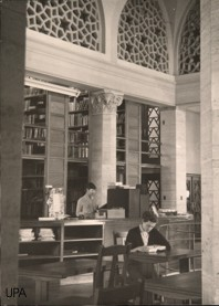 University of Pretoria's Merensky Librart- 1939